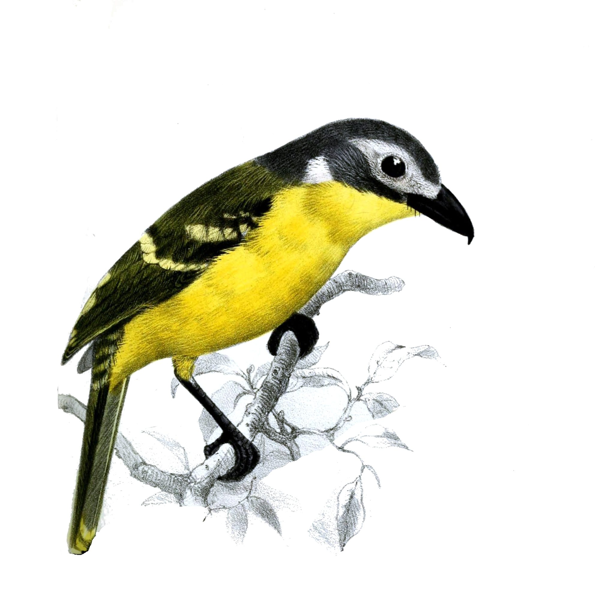 Monteiro's Bush-shrike, adult female (above)